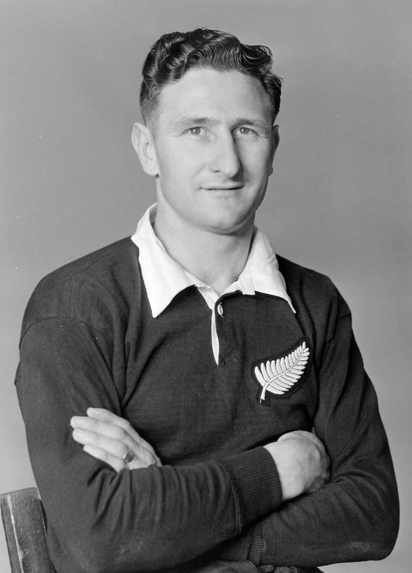 A. E. G. Elsom